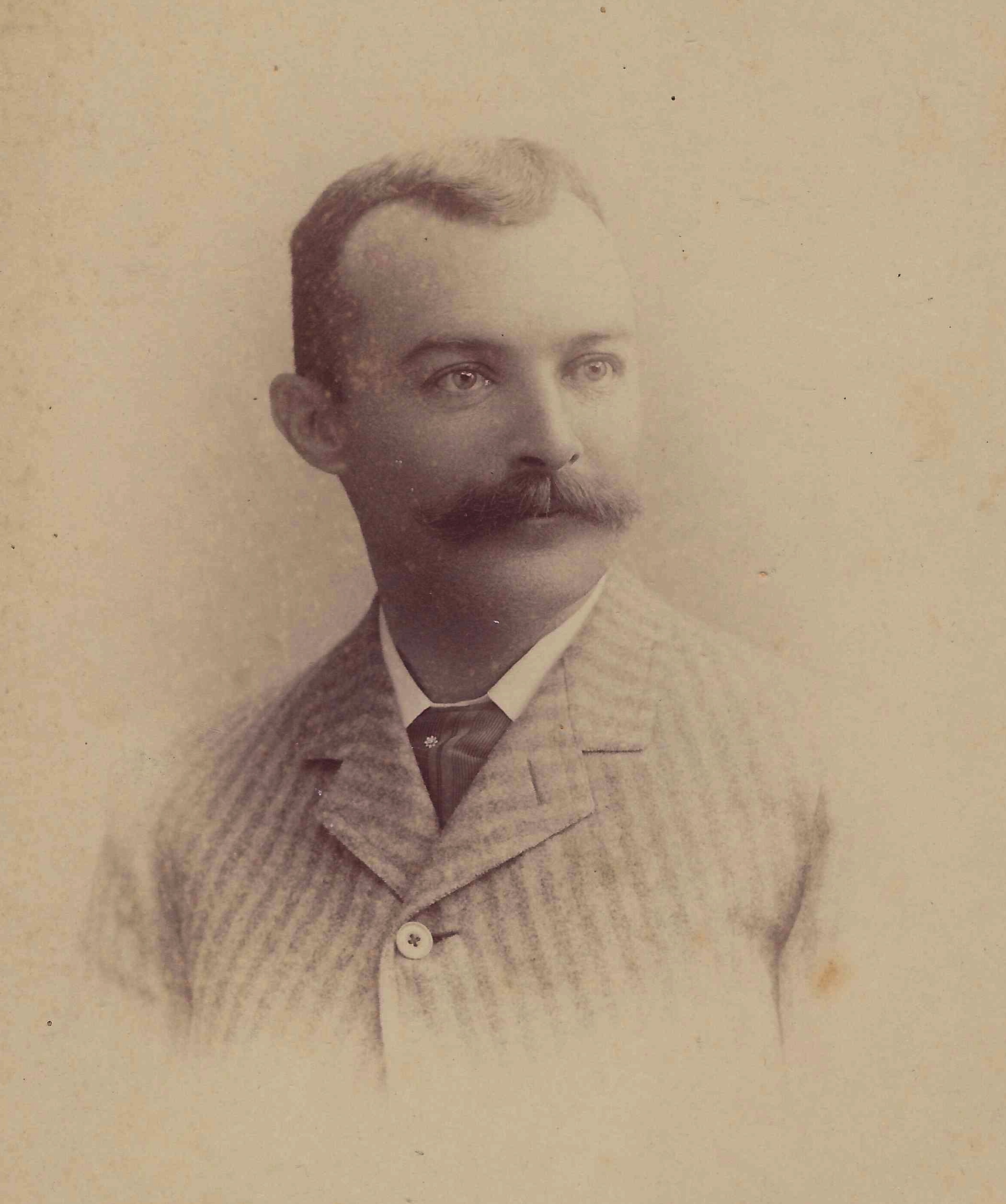 Frederick W. Macfarlane (July 21, 1854 – July 14, 1929).